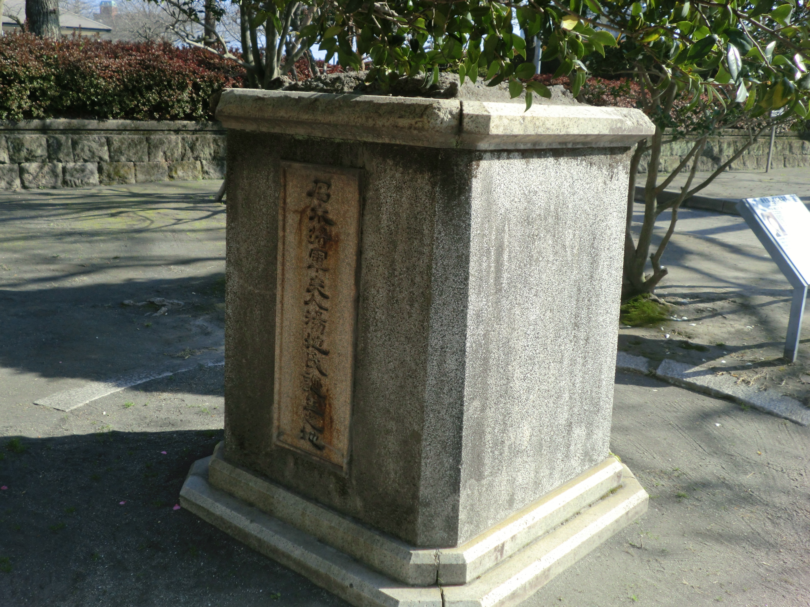 Birthplace monumant of Shizuko Nogi, wife of Count Maresuke Nogi. This is built by Sanjin Murano, member of the House of Representatives in 1919, at Kagoshima, Kagoshima, Japan. There was bronze sculpture on this monument in those days.